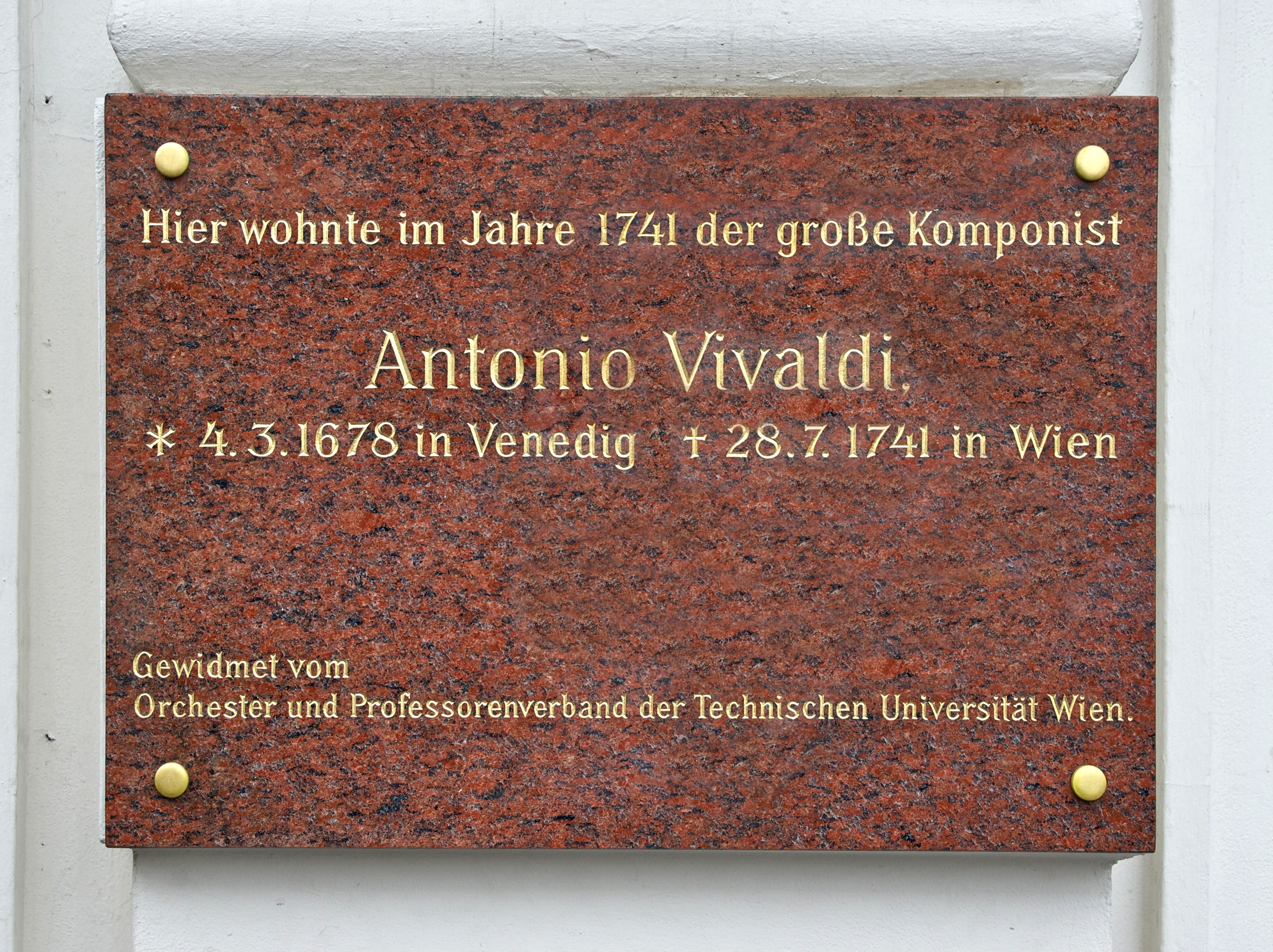 "Here lived Antonio Vivaldi in 1741", year when he died, on a house near the former Carinthia Gate in Vienna, Austria. Philharmonikerstraße 4 [1]